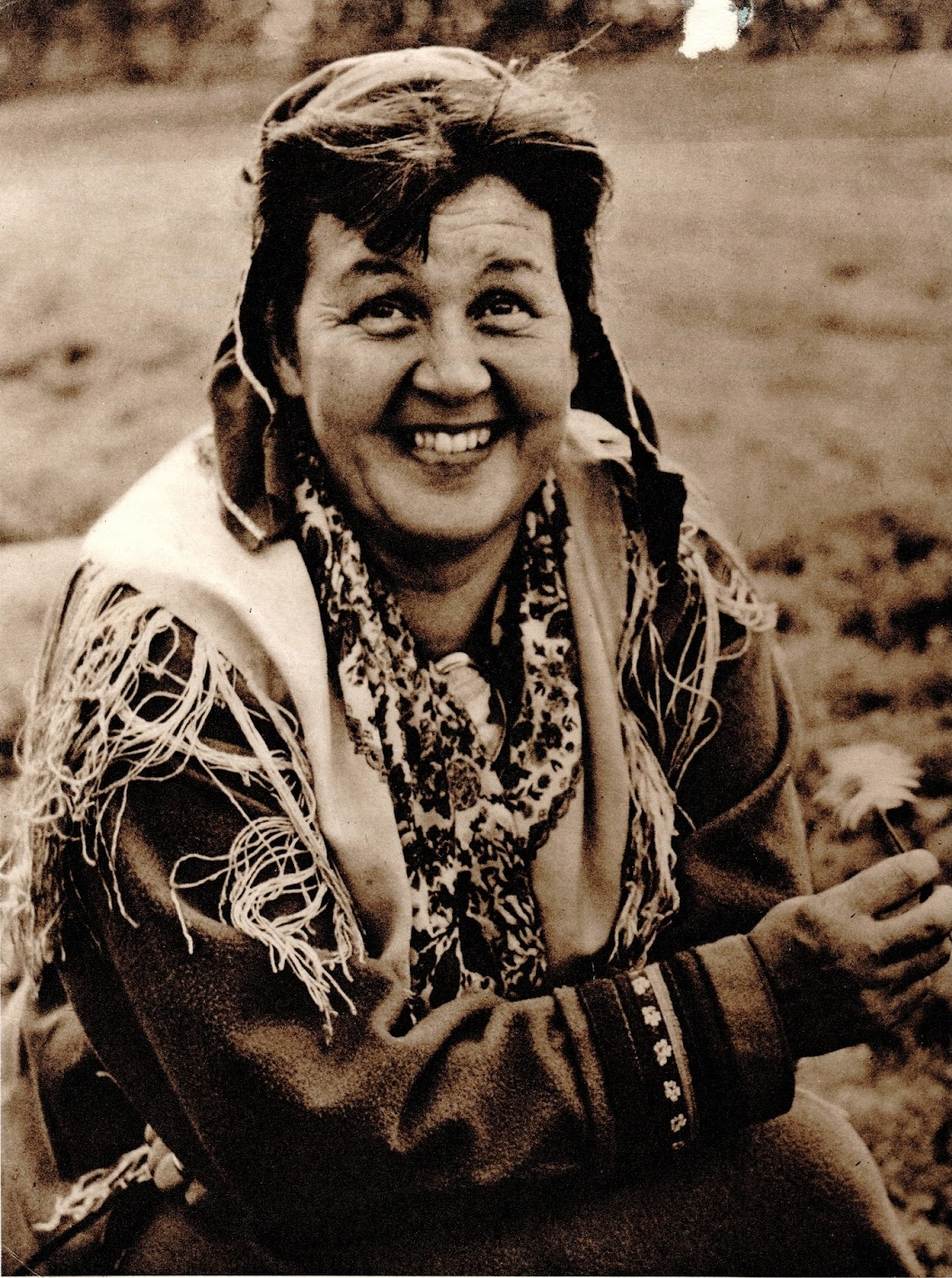 Publicity photograph of the Finnish writer Annikki Kariniemi (1913–1984).